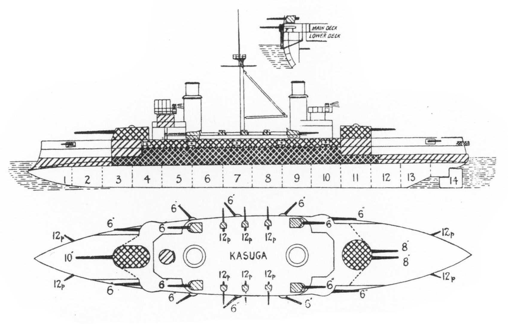 Diagrams depicting Kasuga-class armored cruisers of the Imperial Japanese Navy, designed and built in Italy, where the type was known as the Garibaldi-class. This shows Kasuga, which differed from Nishin in having a single ten-inch gun forward instead of twin 8-inch guns.